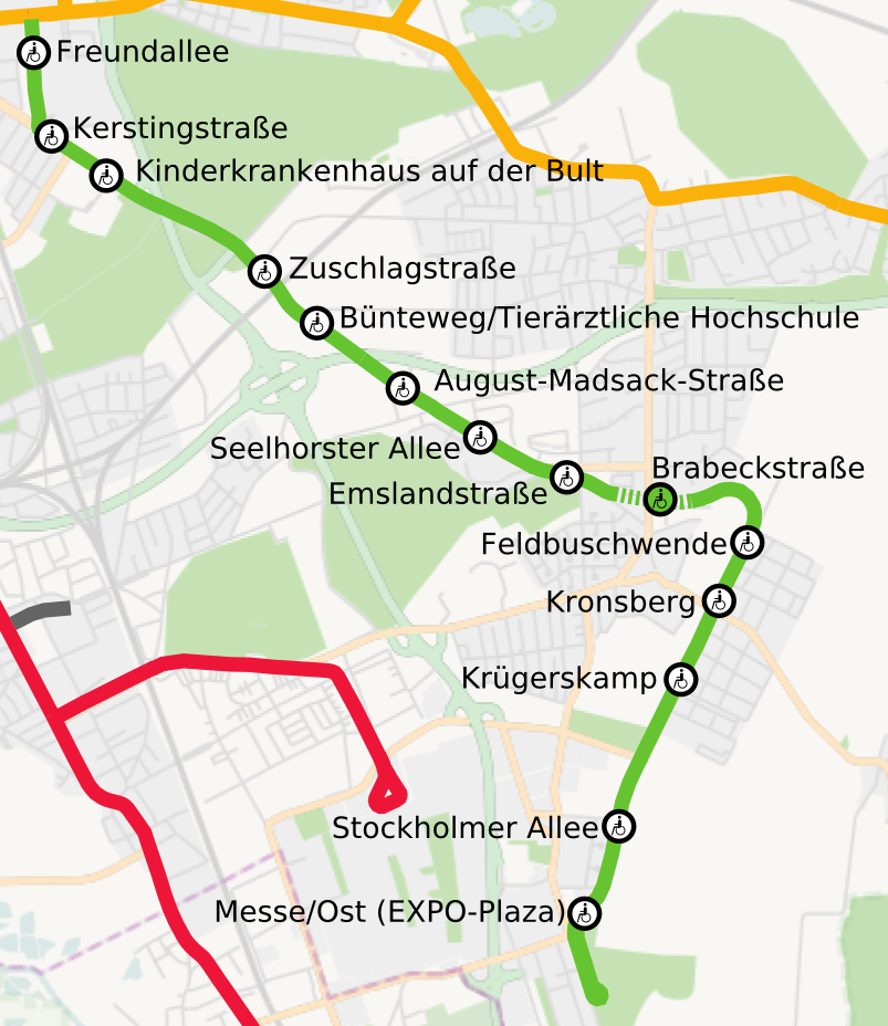 Light rail of Hannover, Germany. D South